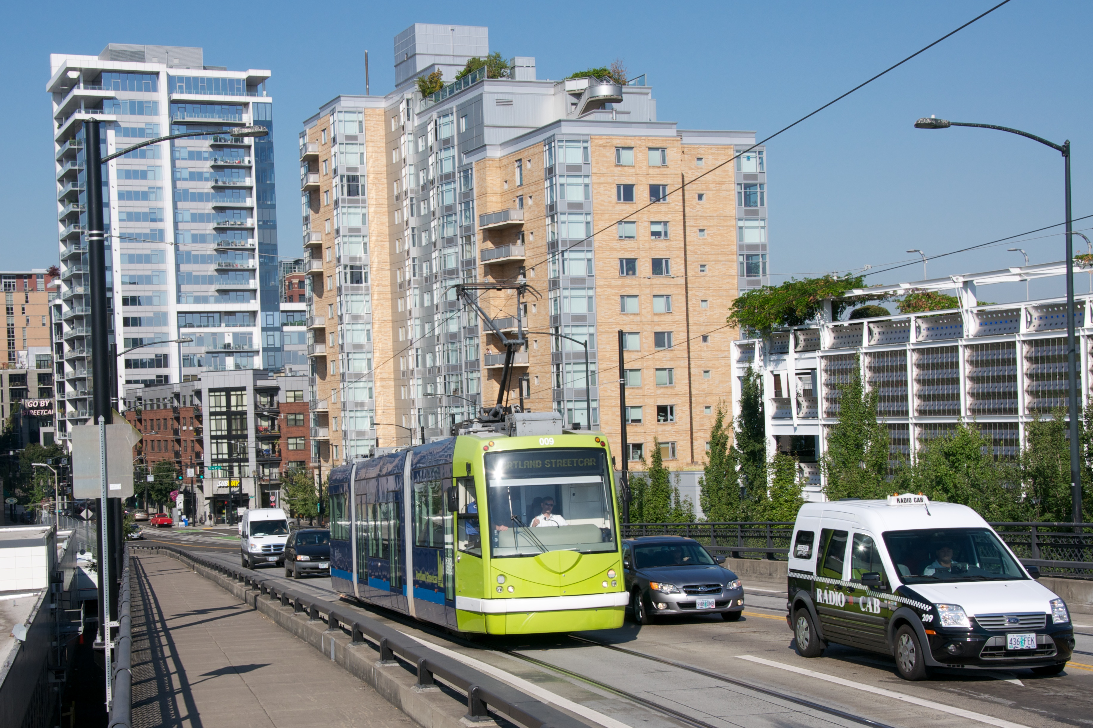 Portland Streetcar "Central Loop" first run. This is car 009 climbing the Lovejoy Street ramp to the Broadway Bridge.